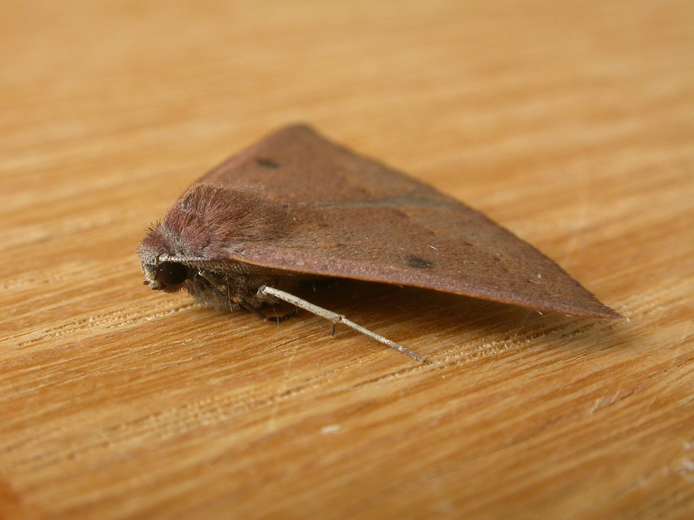 Amelora oenobreches (Turner, 1919), to MV light, Aranda, ACT, 2/3 April 2010